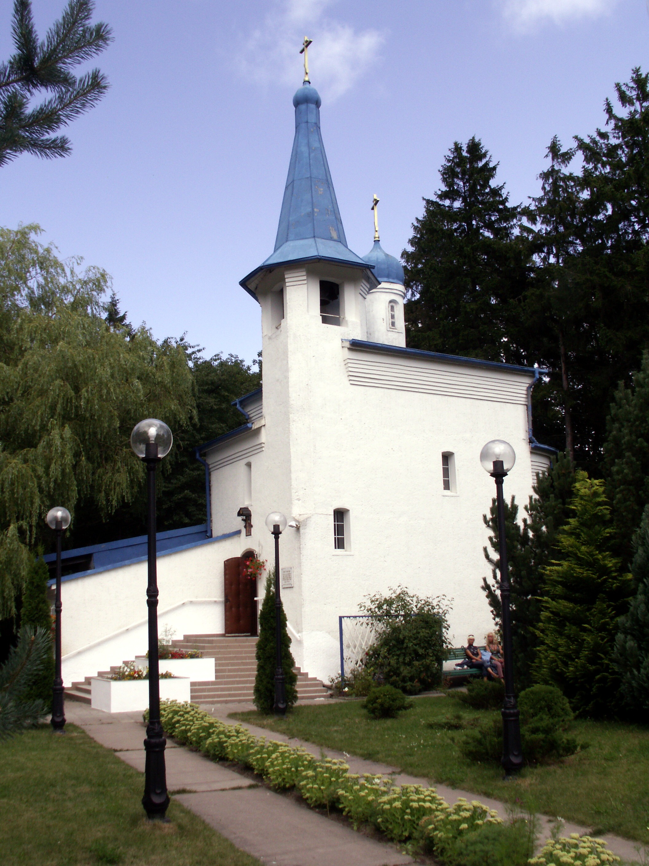 Place of death in aviacatastrophe 22 children's in Rauschen (Svetlogorsk) in Kaliningrad oblast